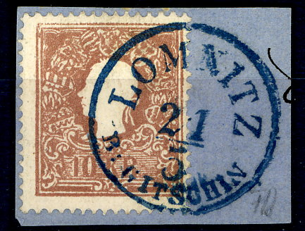 10 kreuzer 1859 - Lomnitz Bohemia - rare blue cancellation